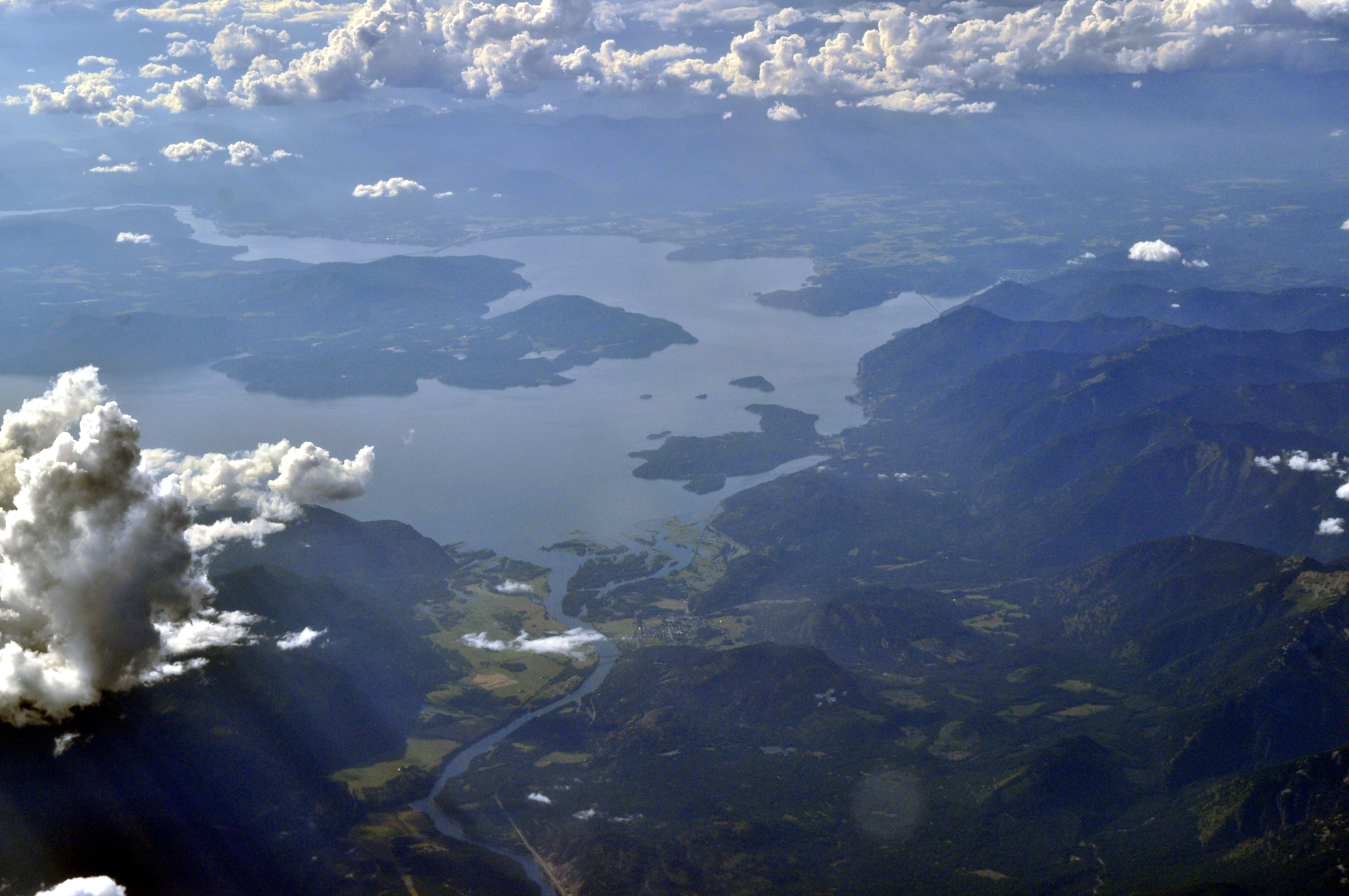 Aerial view of Lake Pend Oreille, Idaho, U.S.